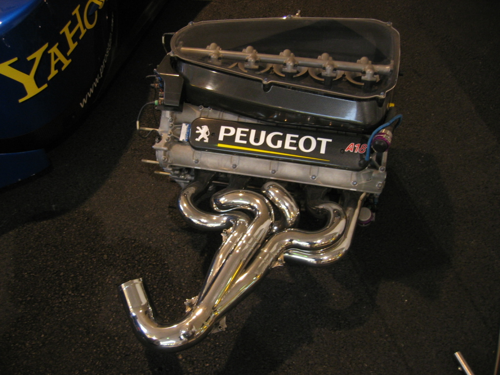 Peugeot A18 V10 engine (72-degree) of Prost AP02 Formula One car in 1999.